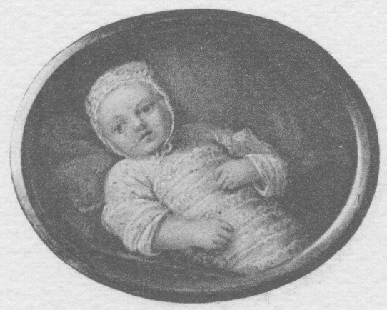 Archduchess Maria Antonia of Austria, the later Queen Marie Antoinette of France, at the age of a few months, daughter of Empress Maria Theresia of Austria and Holy Roman Emperor Franz I. Stephan of Lorraine, Miniatura di scuola tedesca, 1755, Hofburg, Vienna, 4 x 3,1 cm. L'ultima figlia dell'imperatrice Maria Teresa d'Austria: Maria Antonia Josepha Joanna.